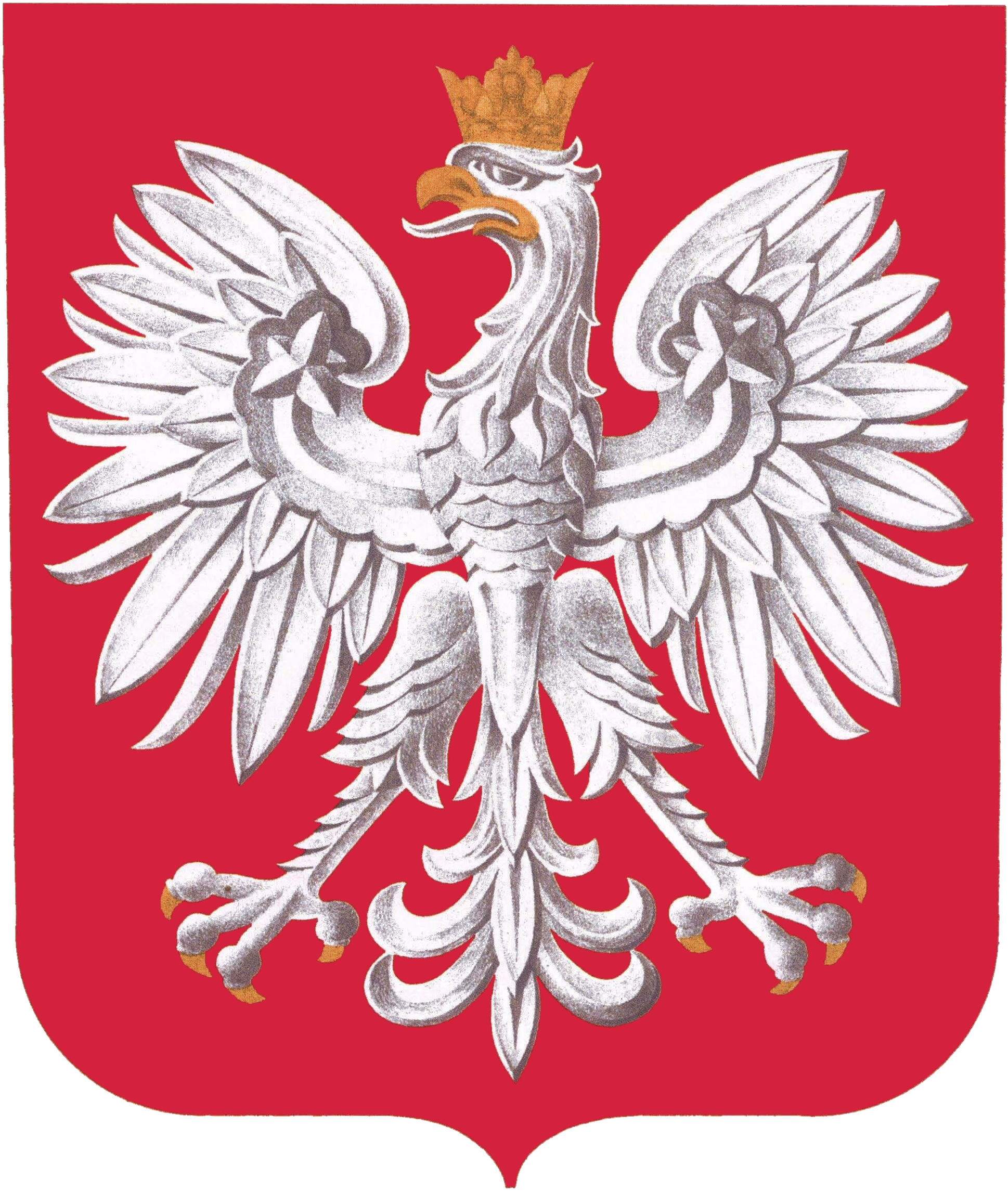 Coat of arms of the Republic of Poland. Picture should be viewed on monitors with colour temperature set to 6500K. The picture was at first taken from Grafika:Godlo Polski z DzU.jpg and then cut down. The red background was calculated in accordance to the official specifications found in attachment no. 2 of "Coat of arms, Colours and Anthem of the Republic of Poland, and State Seals Act". This data was expressed in CIE xyY color space (which is a two-dimensional projection of the CIE XYZ color space plus brightness), where x and y are chromaticity (colour) coordinates and Y is luminance (brightness), and a permissible deviation range expressed as delta E in CIE 1976 (L* u* v*), and was set to x=0.570, y=0.305, Y=16.0, E=8.0. The calculation used the sRGB profile and assumed the white point colour temperature at 6500K. More information: Flaga Polski and Flag of Poland.